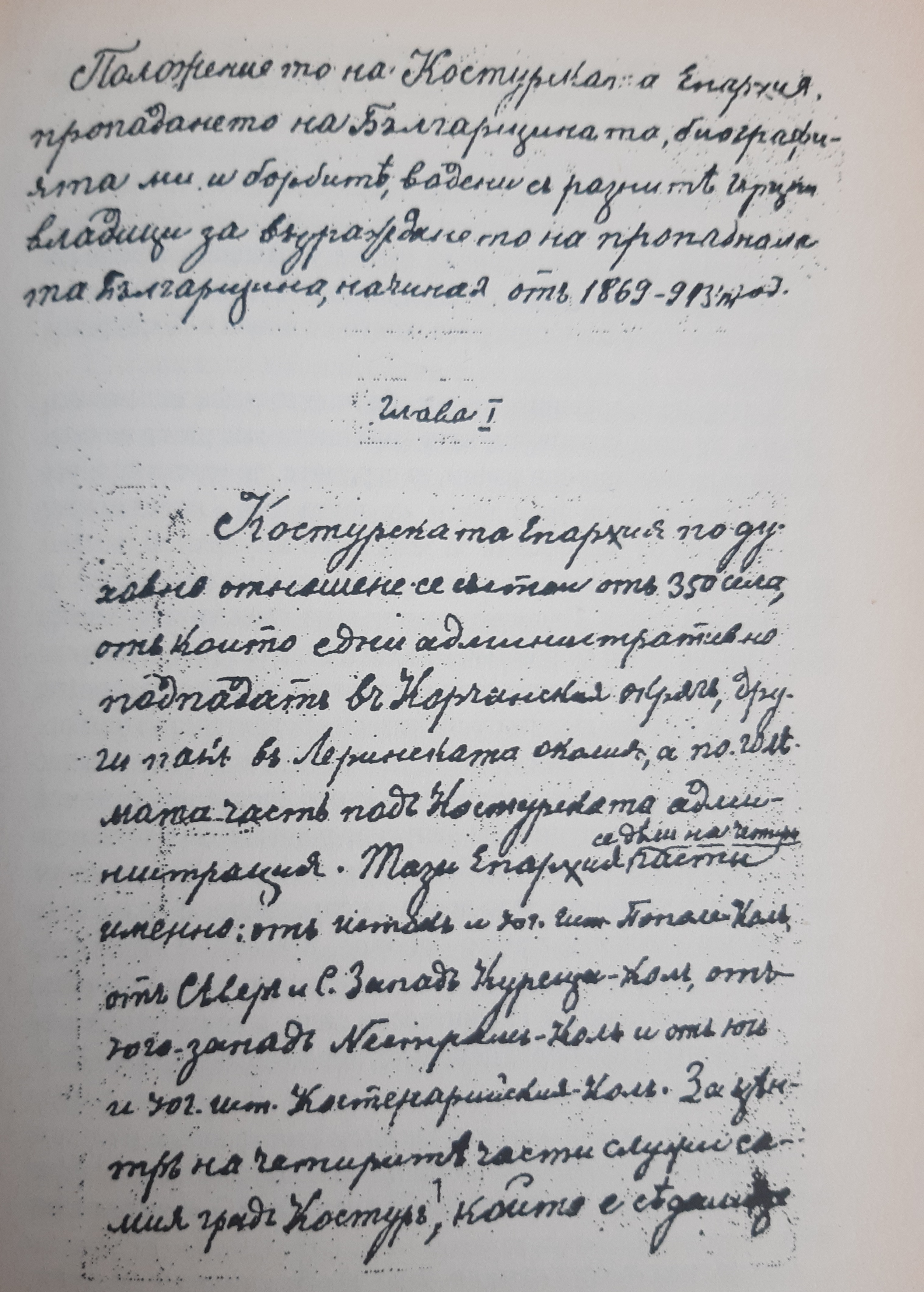 First page of Tarpo Popovski's Memoirs, Bulgarian teacher and priest from the village of Kosinets (today Yeropigi).